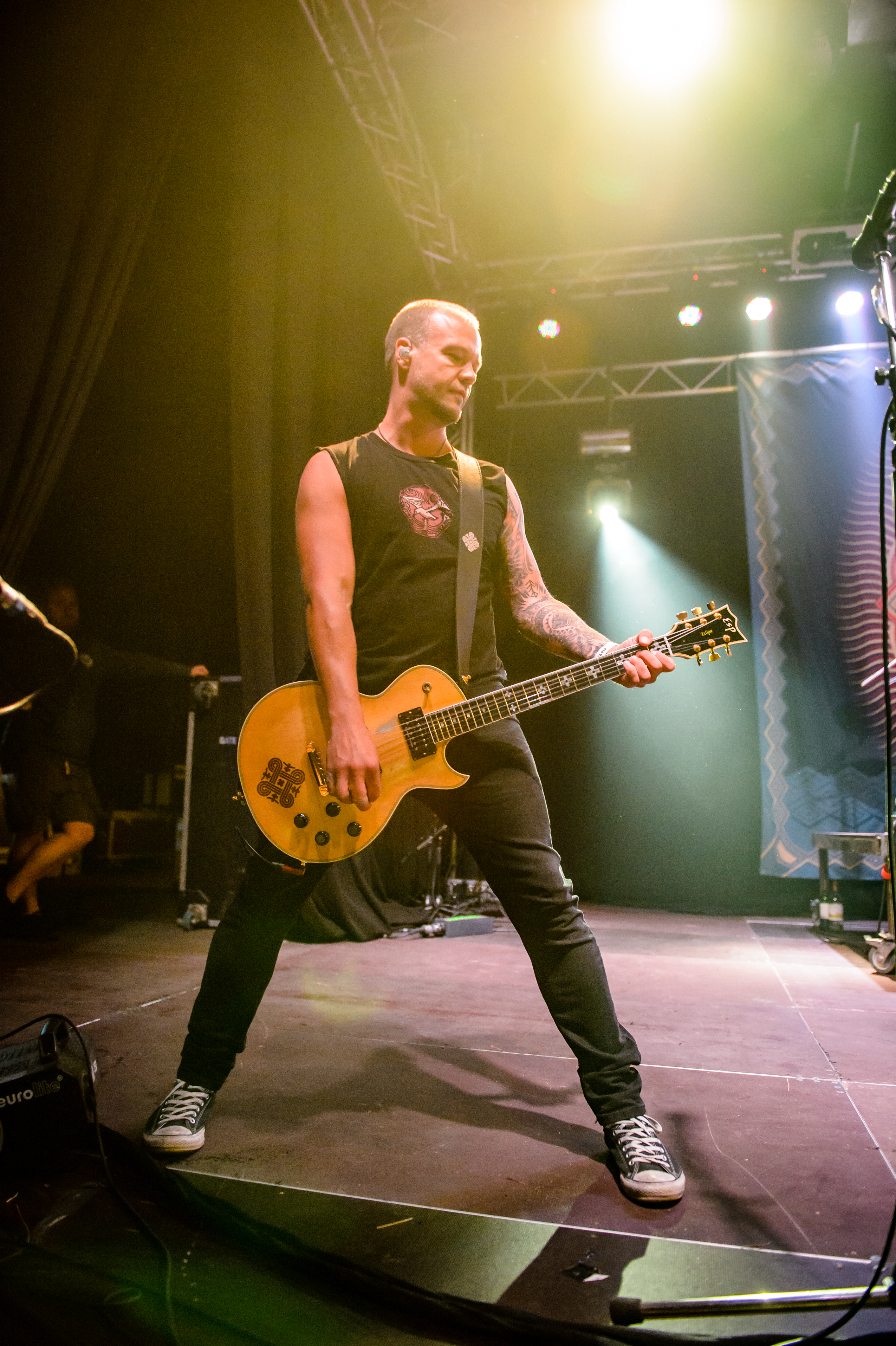 Amorphis; Dong Open Air 2016